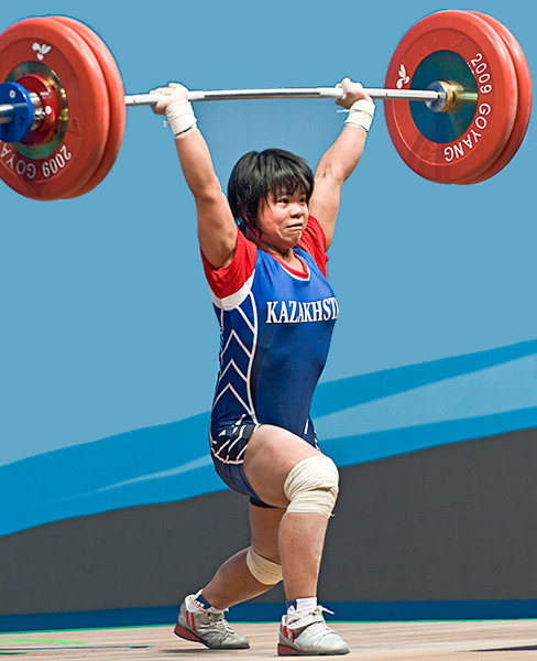 Zulfiya Chinshanlo World Champion 2009 53kg class Kazakhstan photo taken at Goyang City site of 2009 world championships in Olympic Weightlifting